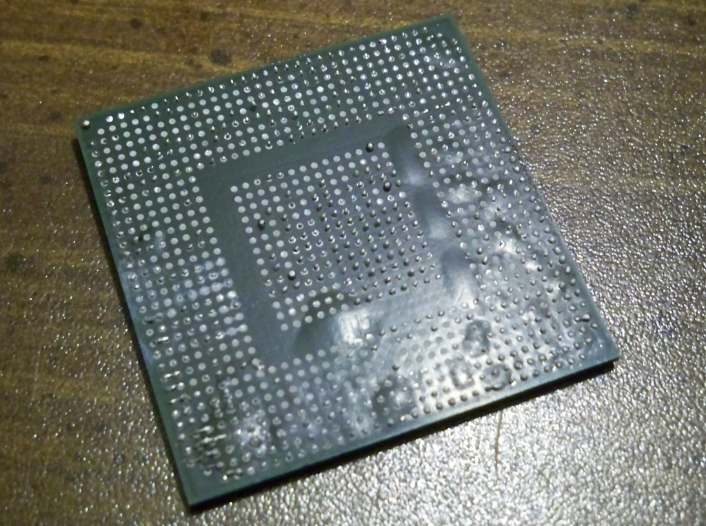 This is an Xbox 360 graphical processing unit that was desoldered from an Xbox 360 motherboard. The photograph shows the risks of desoldering ball-grid array components without proper procedures. Here you can see that moisture in the circuit board turned to steam when it was subjected to intense heat. This produces the so-called "popcorn effect." You can prevent this by using a fast-acting solvent such as methyl ethyl ketone as well as preheating the circuit board using an oven.